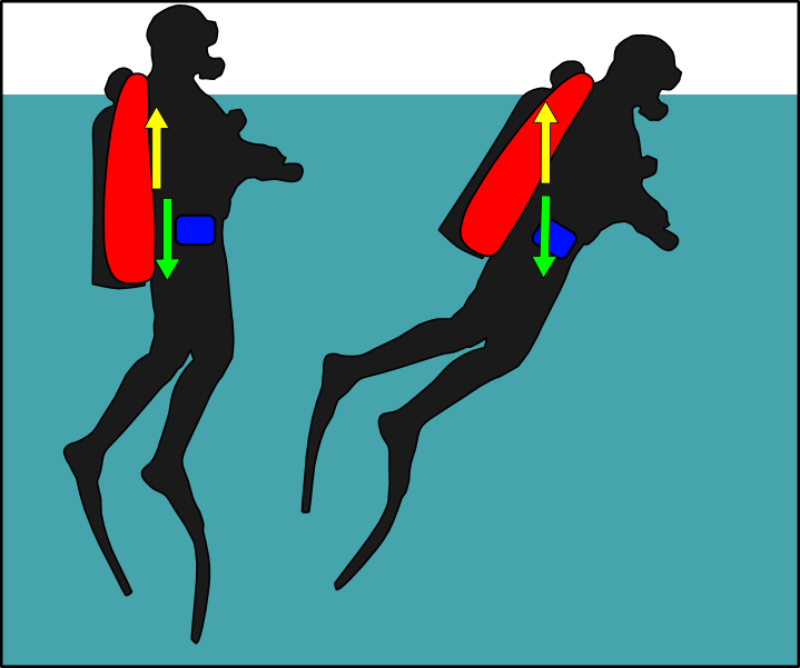 Diver with large wing stabilised at surface